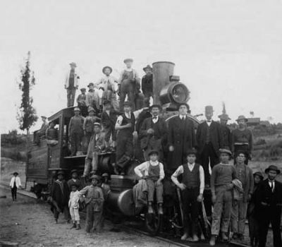 Personnel who worked on the construction and took part in the first trip of the Ecuadorian Trans-Andean Railroad. Picture taken on June 24, 1908, one day before the arrival of the first train to Quito.